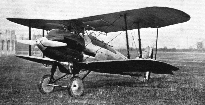 Gloster Gorcock, 1925 fighter